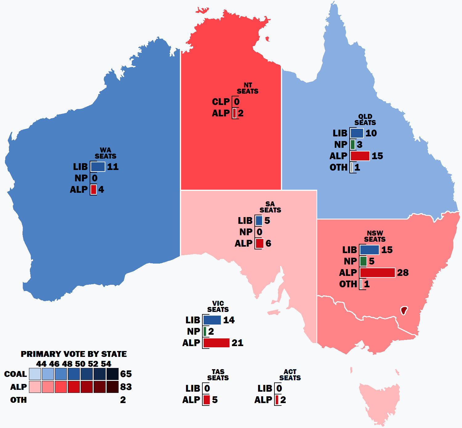 Result of the primary vote by state and territory in the 2007 Australian federal election.